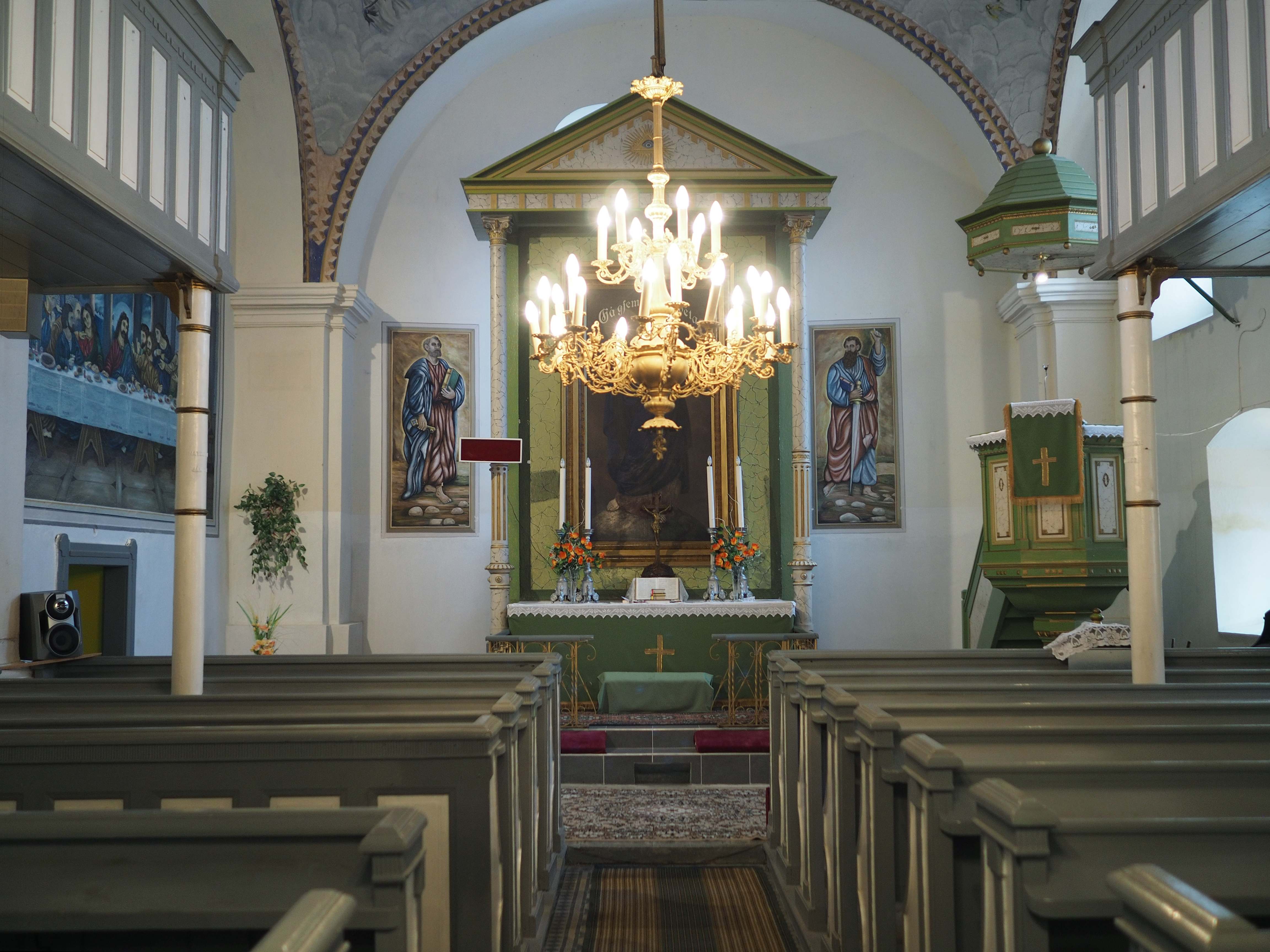 Interior of the Lutheran Church in Čierna Lehota, Slovakia. Baroque-classicist building from 1773-1774.